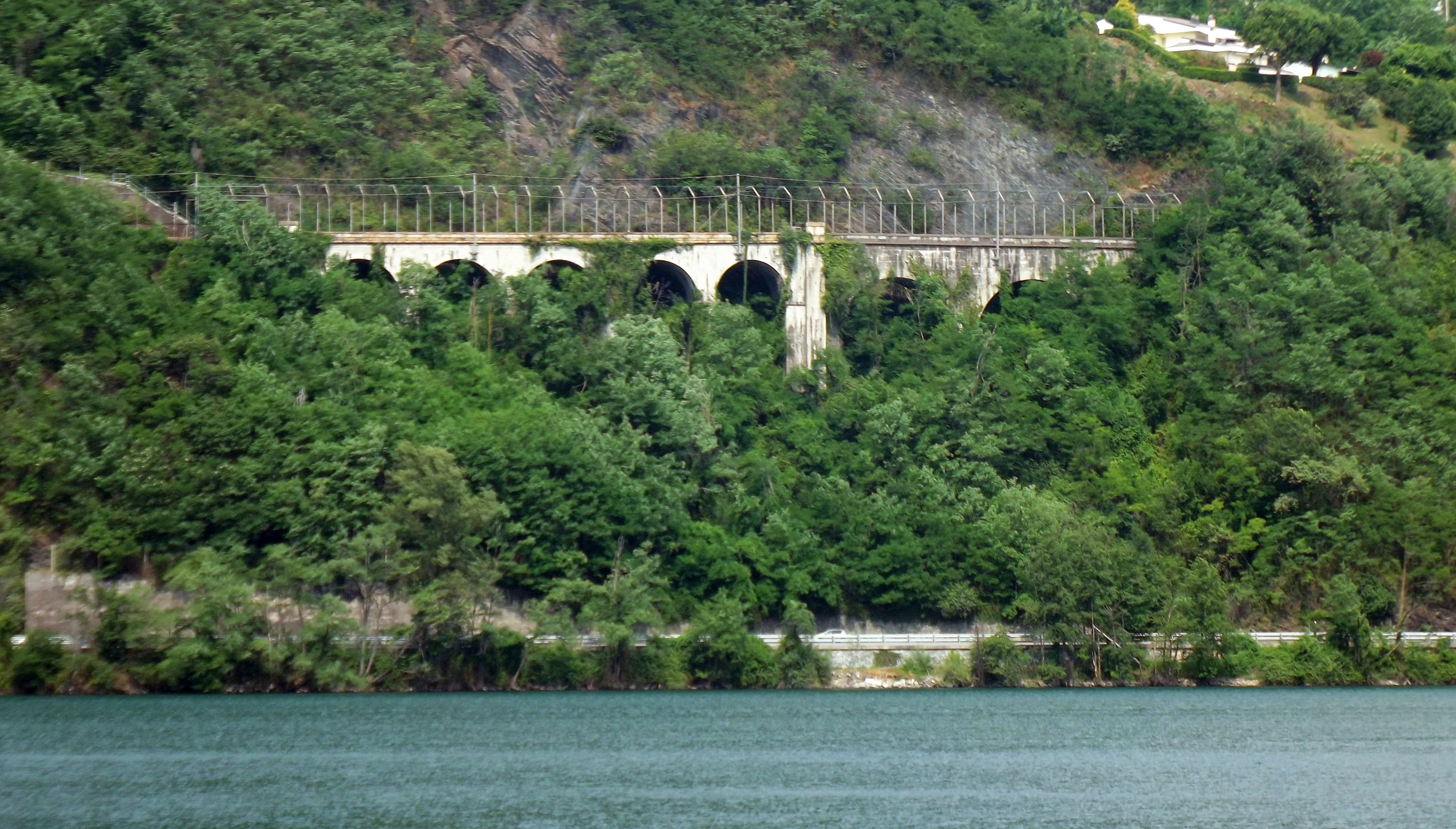 Domodossola–Novara railway near Pettenasco (NO, Italy)